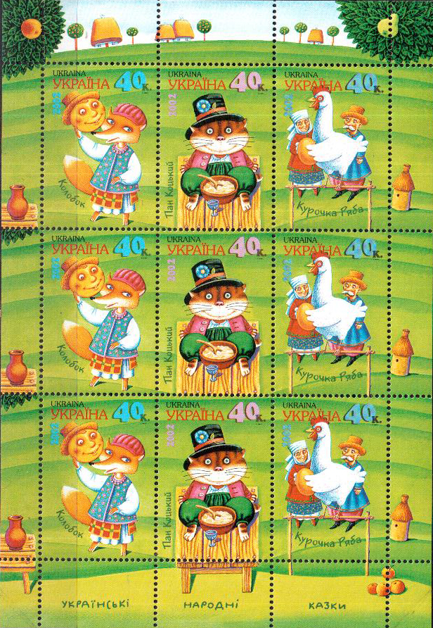 A block of three Ukrainian stamps, Ukrainian folktales, 40 kop.